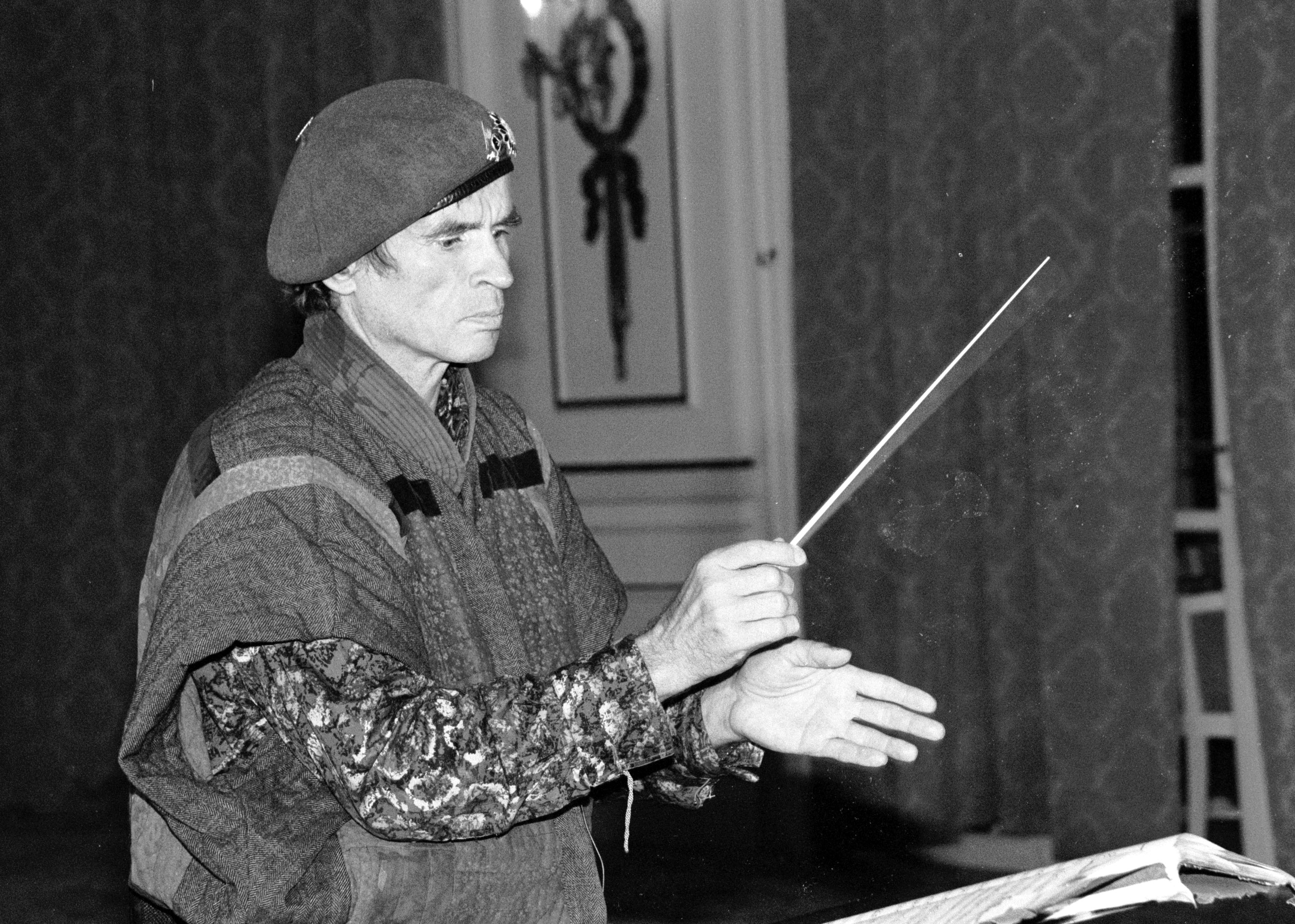 Rudolf Nureyef in 1991.